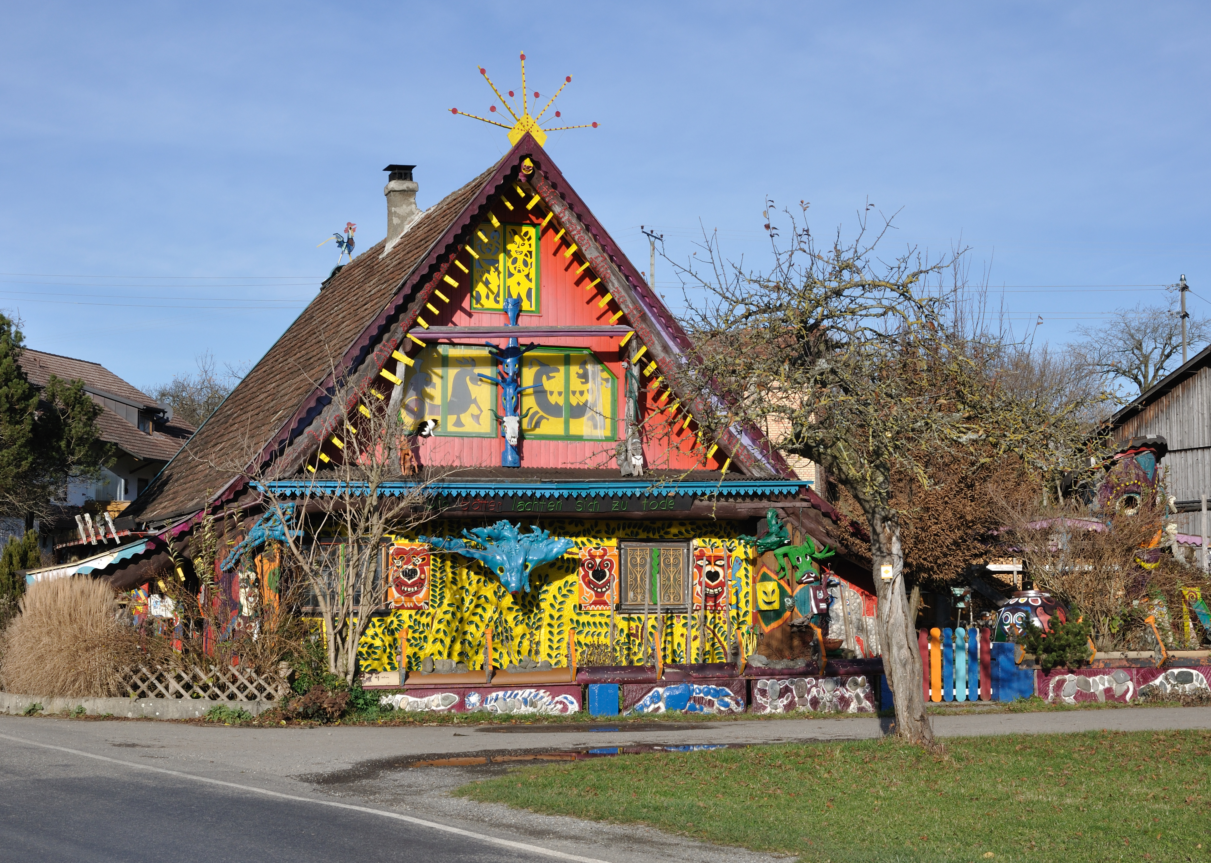 So called Hexenhaus (witch's house) in Neukirch-Hinteressach, county Bodenseekreis, Baden Wurttemberg, Germany